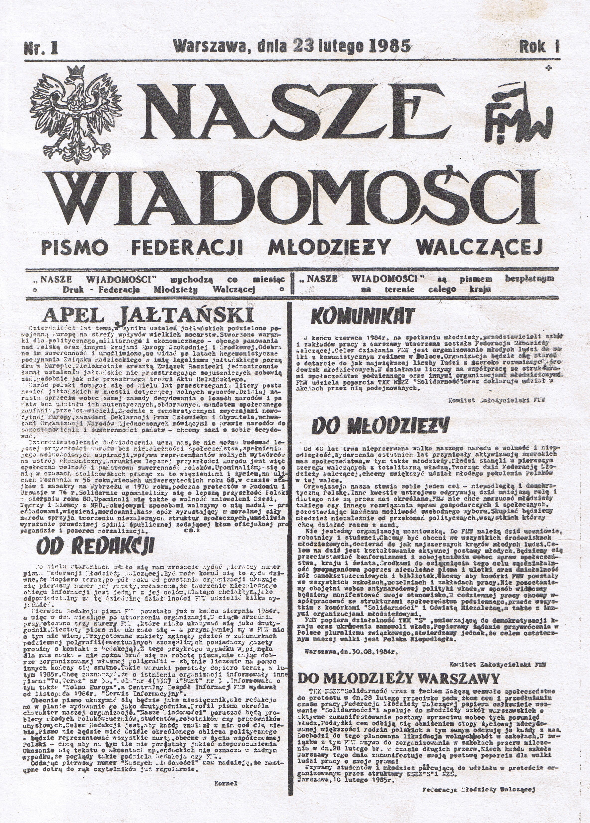 Polish, undergrand youth newspaper, published in Warsaw from 1985 to 1989 by Federation of Fighting Youth.